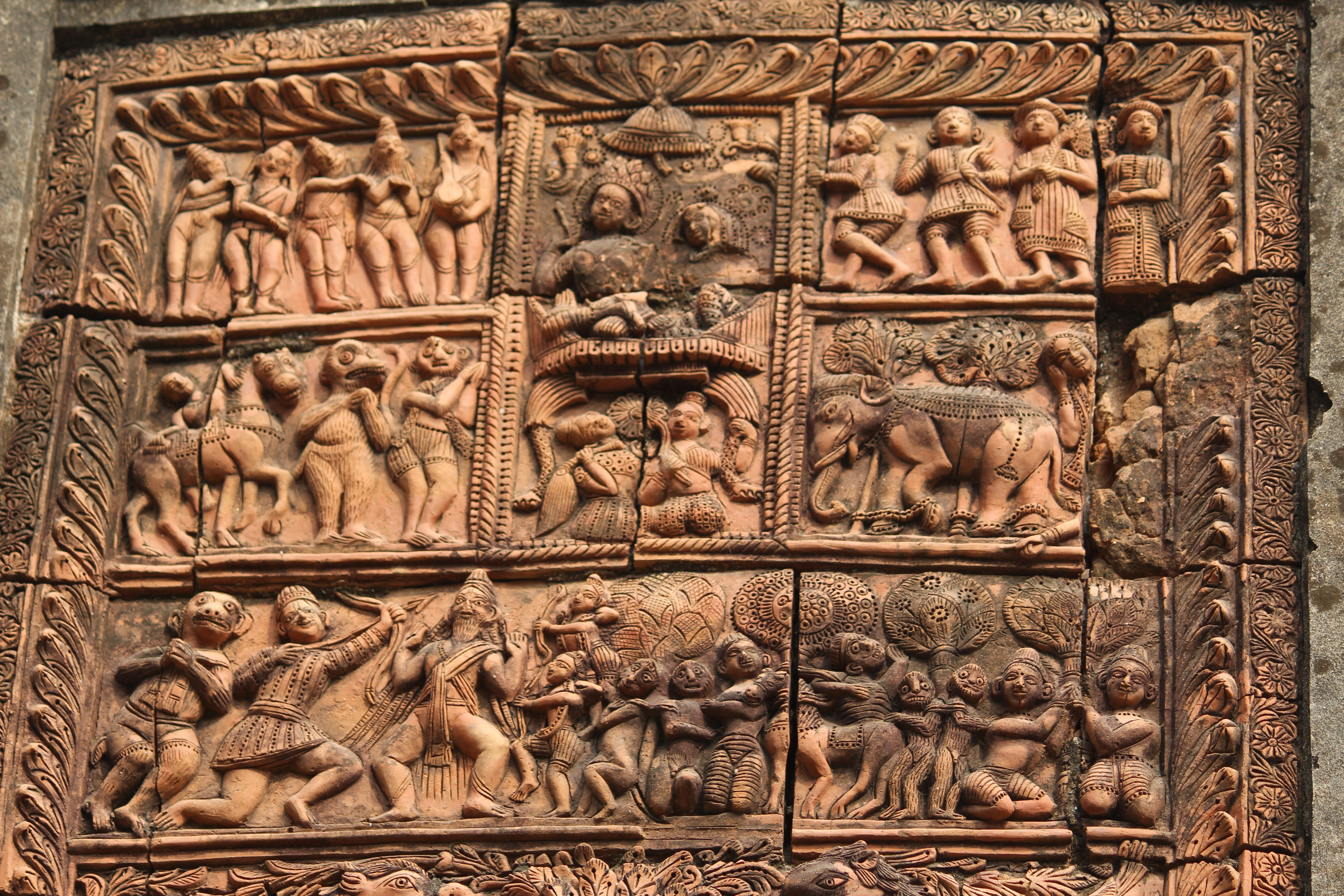 De para temple of Joypur in Bishnupur sub division in Bankura district